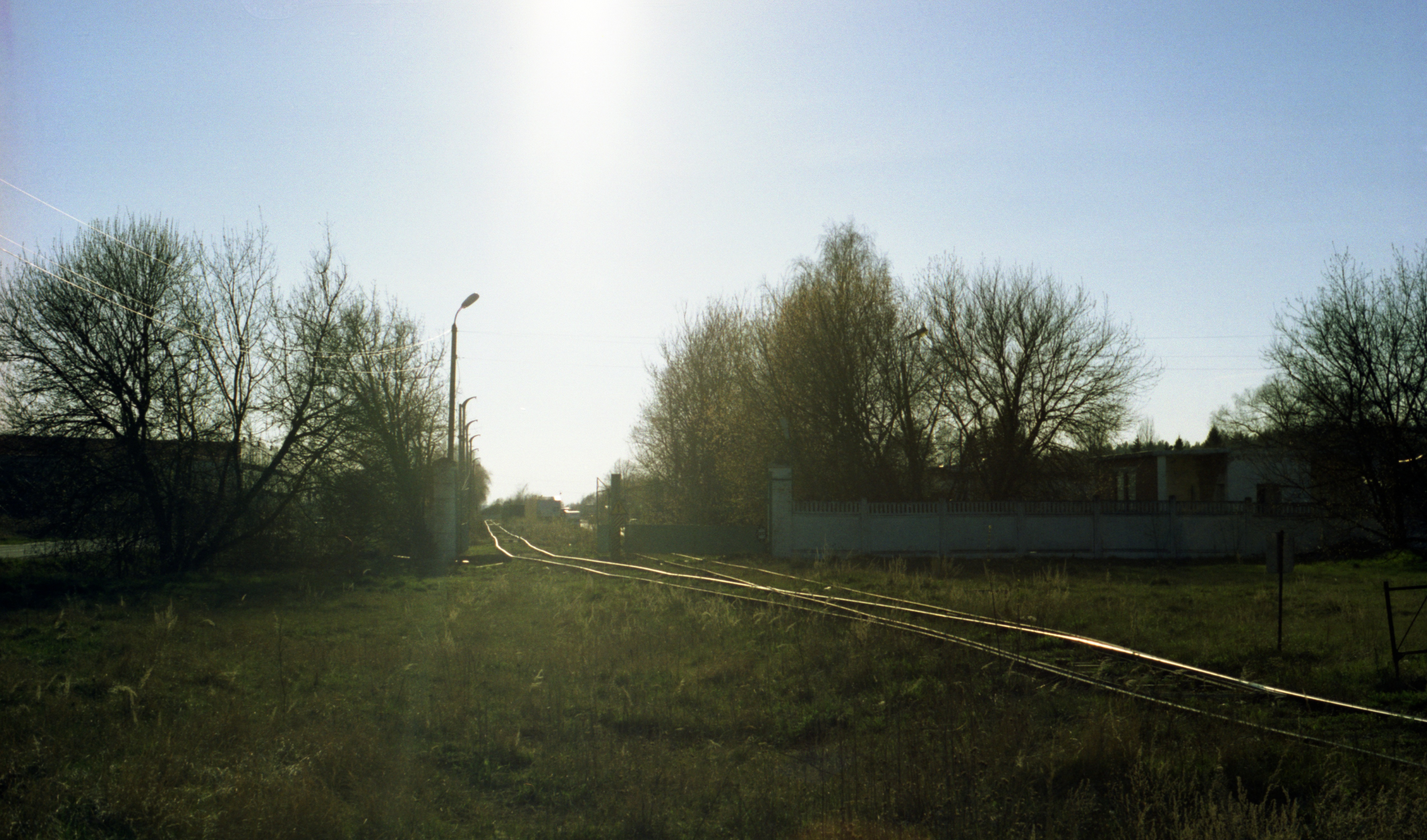 Ricoh KR-10X Kodak Vision 3 50D (SFL 250D, bought in Sreda film lab Moscow at 2020-04)